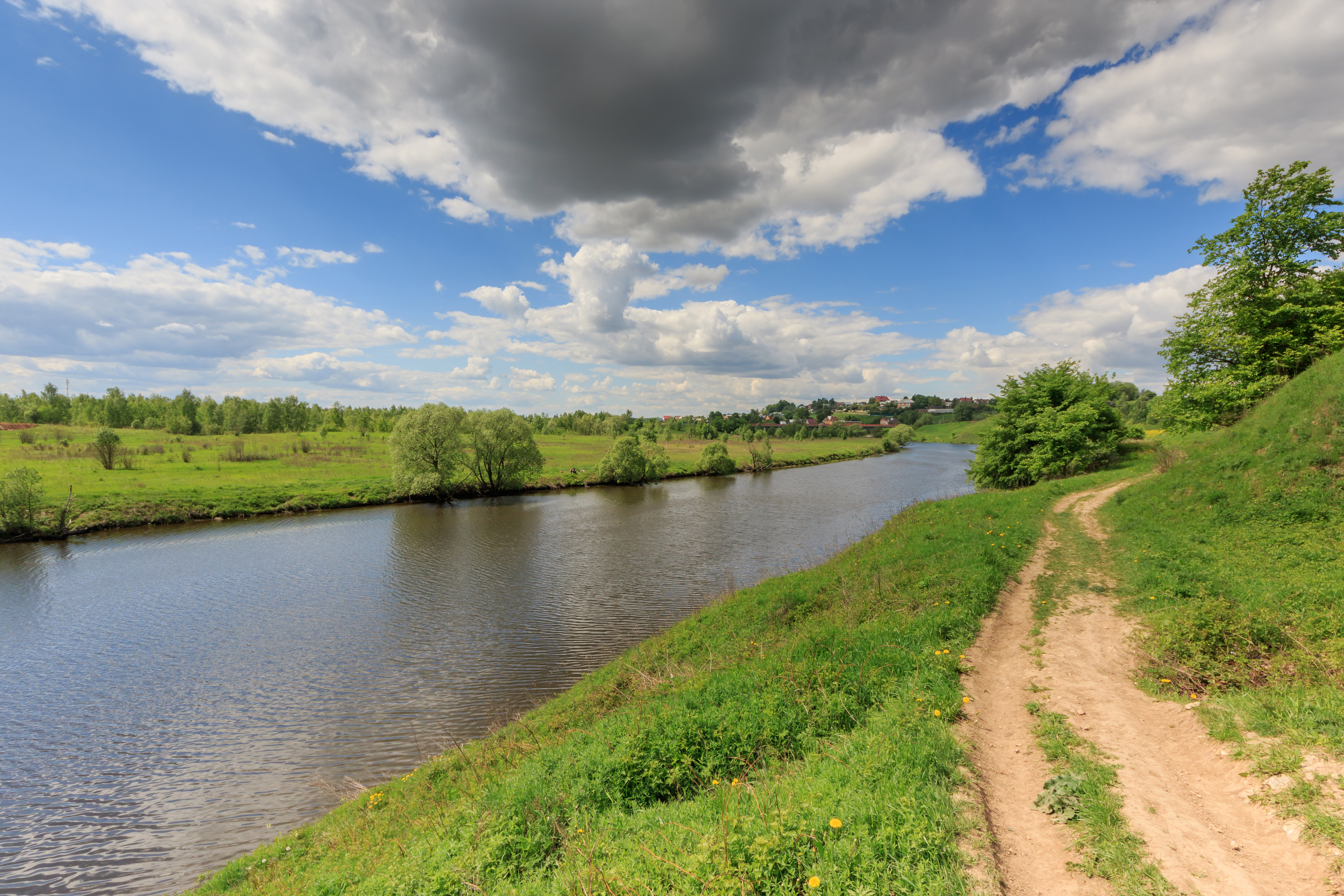 Pakhra River at Syany, near Domodedovo, Moscow Oblast (Russia).